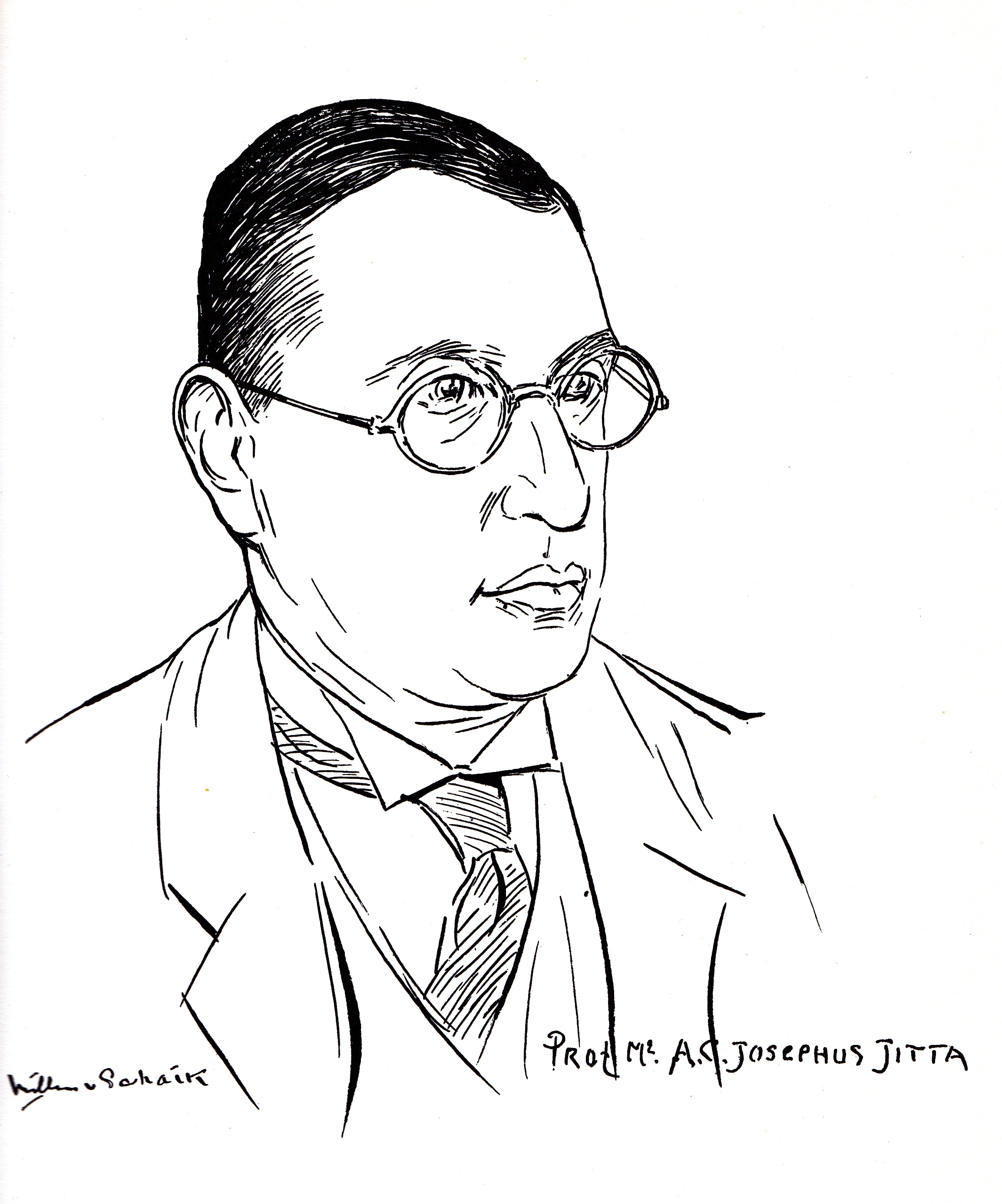 Prof. mr. A.C Josephus Jitta. Sketch drawn by Willem van Schaik (1876-1938)